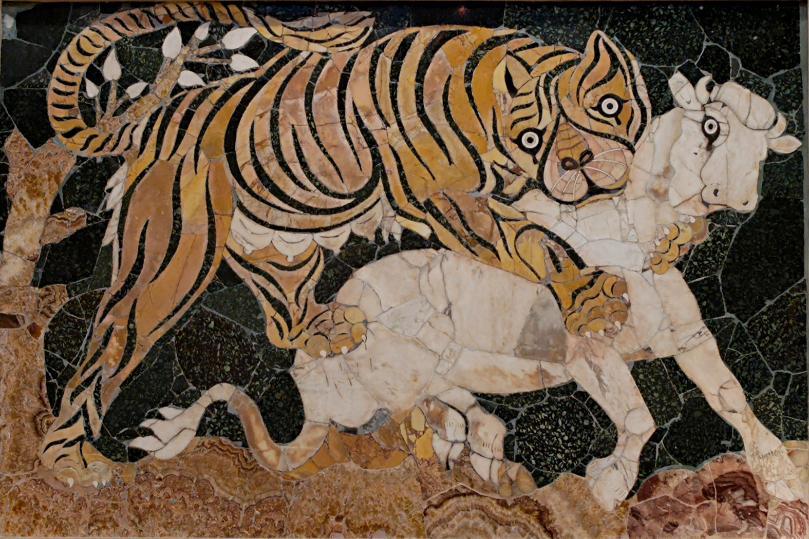 Opus sectile panel: tiger attacking a calf. Coloured marbles, Roman artwork from the second quarter of the 4th century CE. From the basilica of Junius Bassus on the Esquiline Hill.